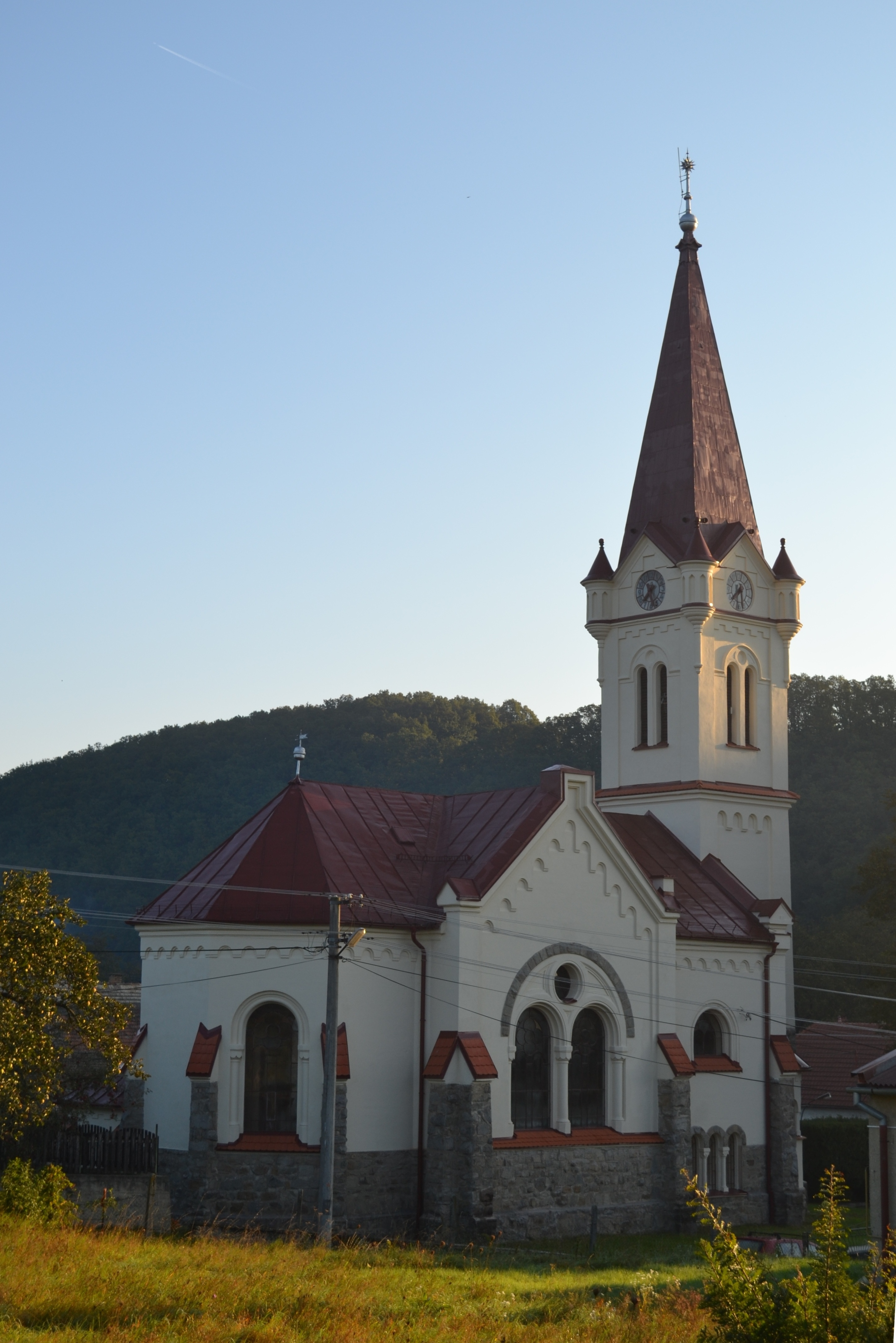 Lutheran Church in České Brezovo was built in 1922